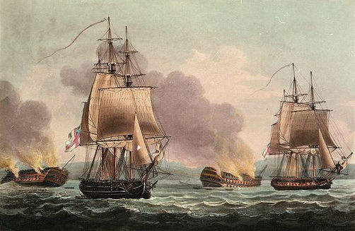 HMS Magicienne and HMS Acasta and the Battle of San Domingo